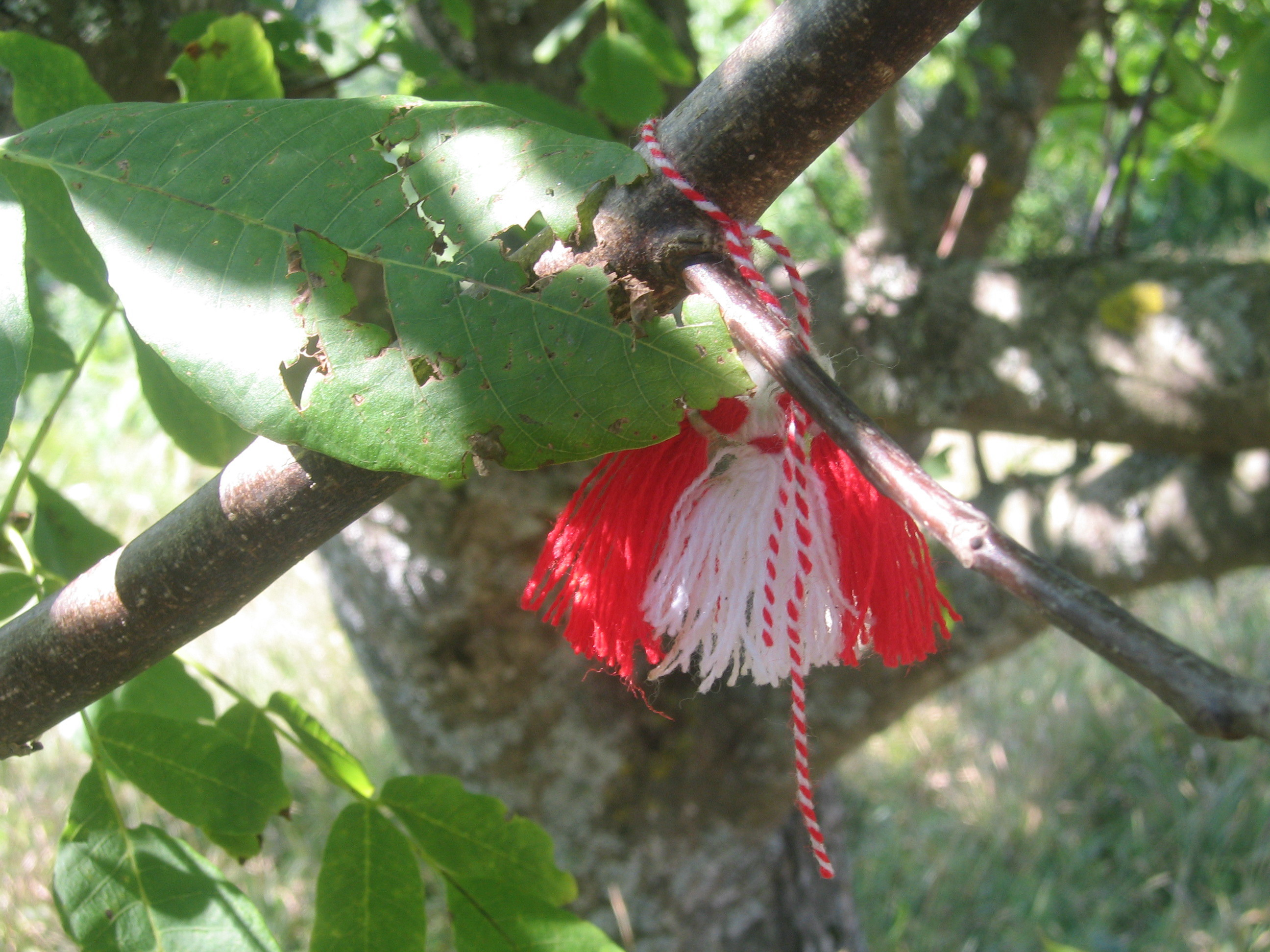 A Martenitsa tied to a tree branch in Bulgari, Bulgaria.